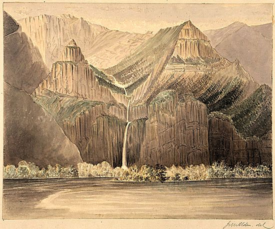 Cascade on the Columbia River. National Archives. Category:Columbia River Gorge Artist: James W. Alden Year: 1857 (concerns James Madison Alden, but seems likely it is the same person -- a painter, and in the right place at the right time.